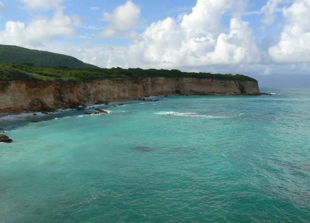 Sea Cliff on Caribbean coast near El Quemaíto, Barahona Province, Dominican Republic.